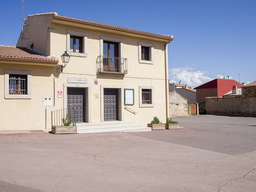 Ayuntamiento